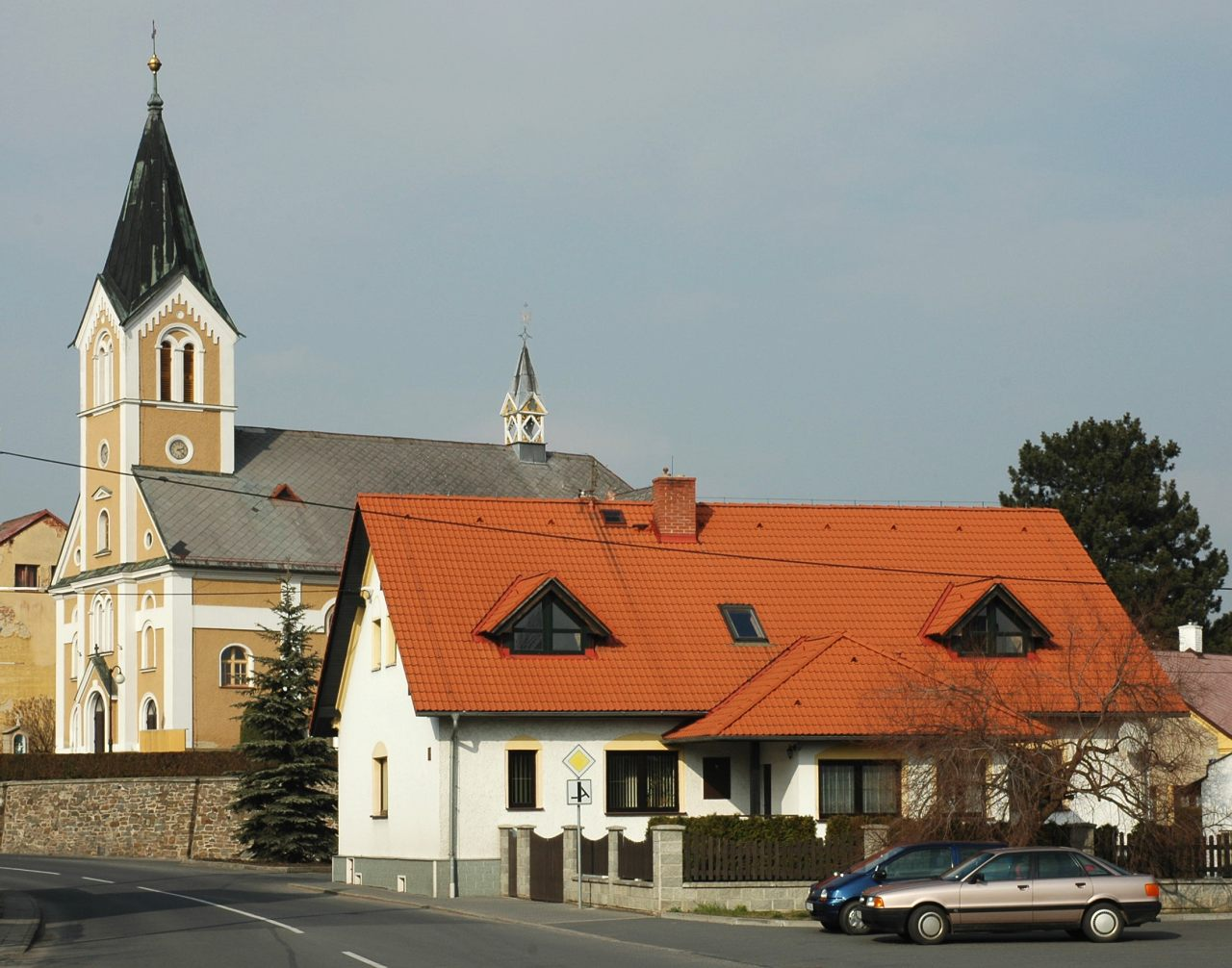 St. Catherine church and rectory, Štěpánkovice, Czech Republic